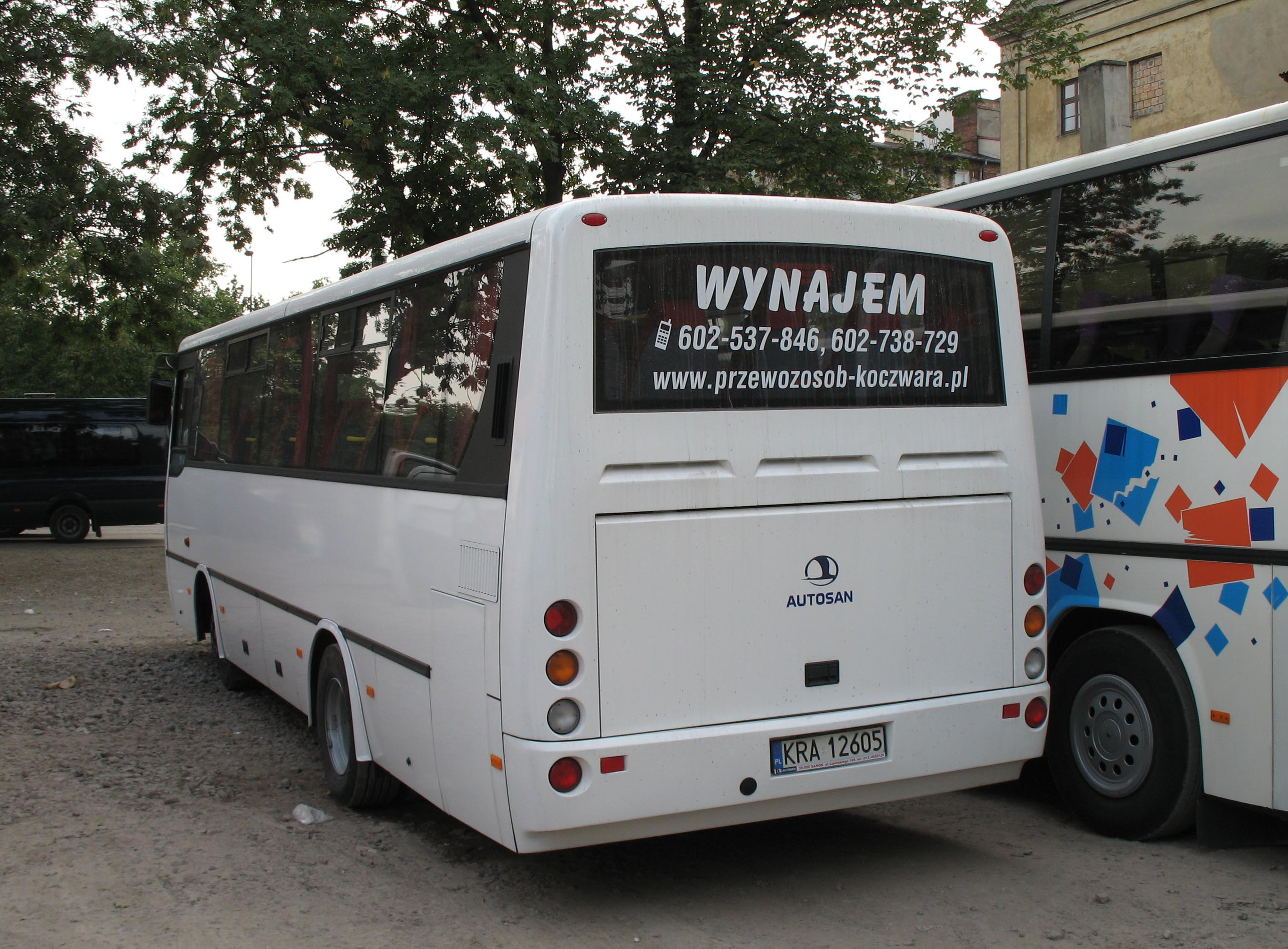 Autosan A0909L Tramp bus in Kraków, Poland. Built 2008, Koczwara from Skała operator.